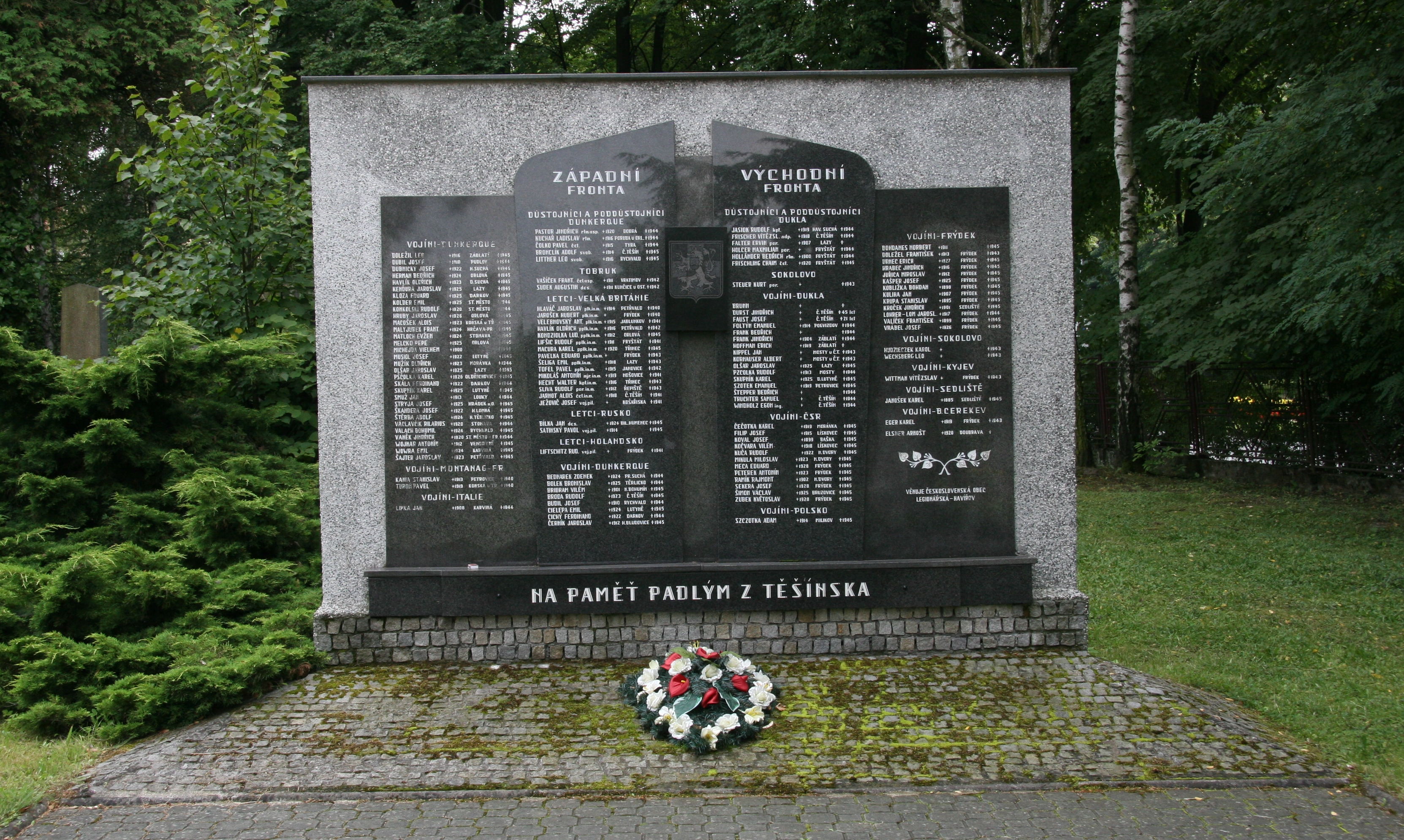 Memorial near Church of saint Anne. Havířov, Karviná District, Moravian-Silesian Region, Czech Republic